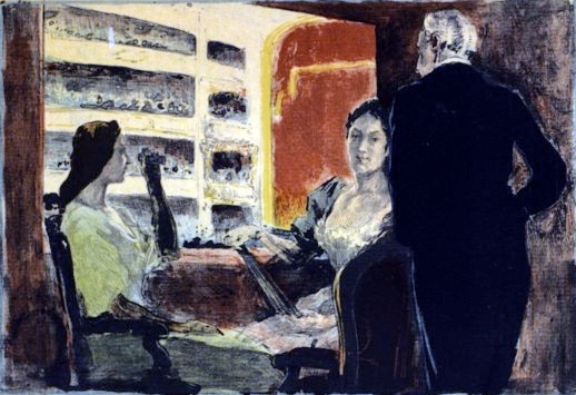 Pendant l'entracte (During the interval) by French painter Alexandre Lunois (1816-1896). Lithography based on ink wash painting process.